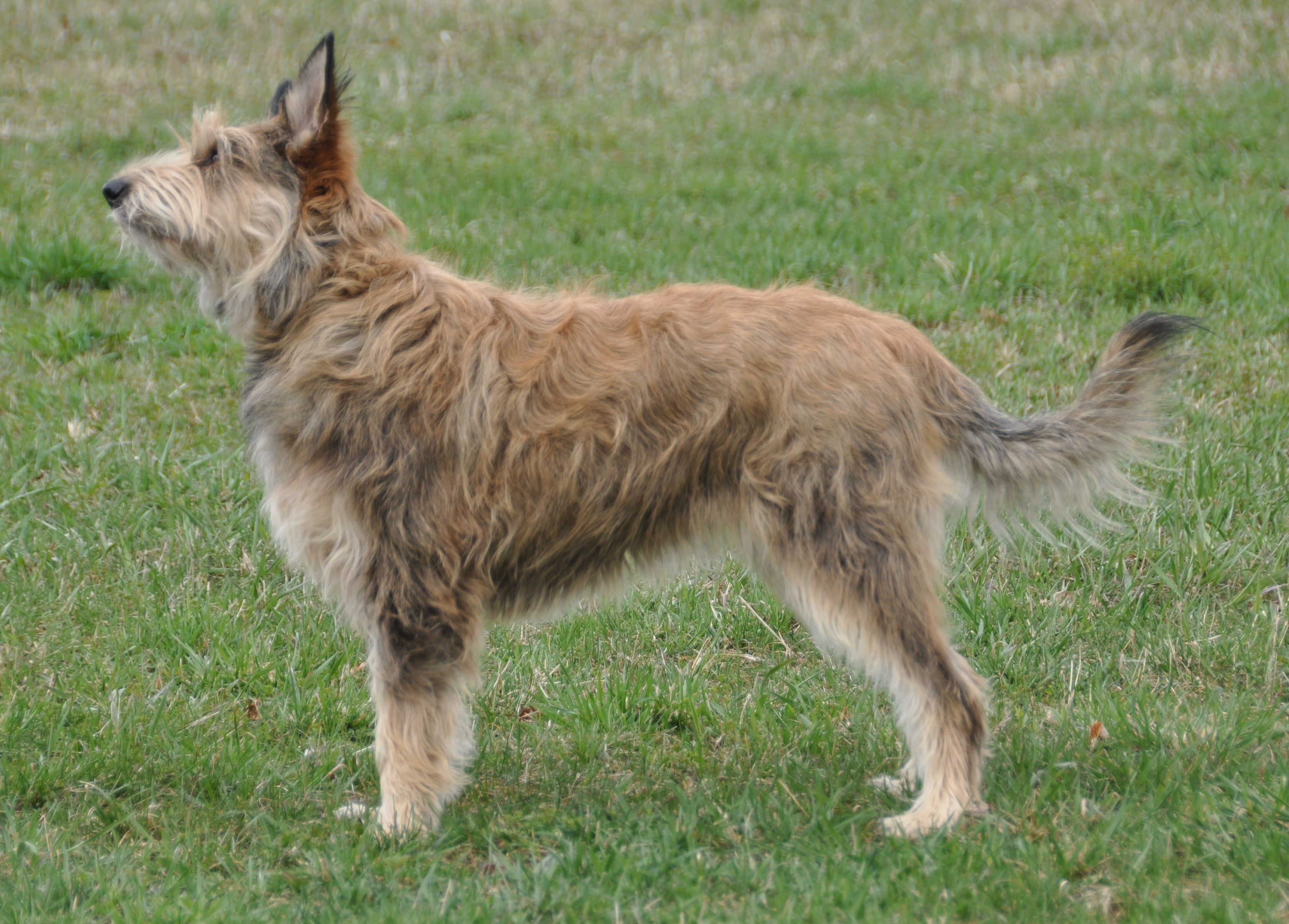 Berger Picard Stacked